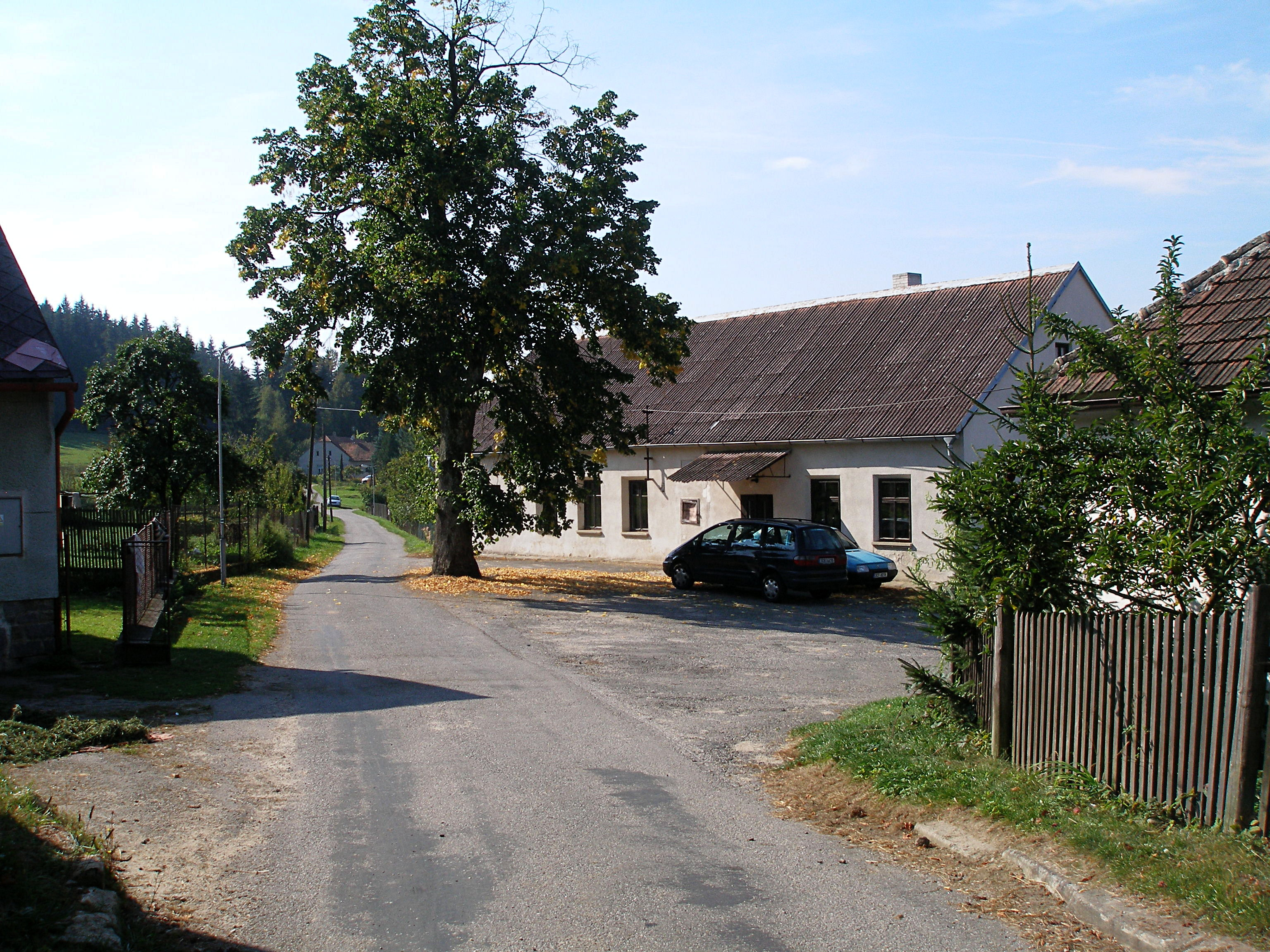 Brandlín (part of Volfířov, Jindřichův Hradec District) - the former Lutheran school